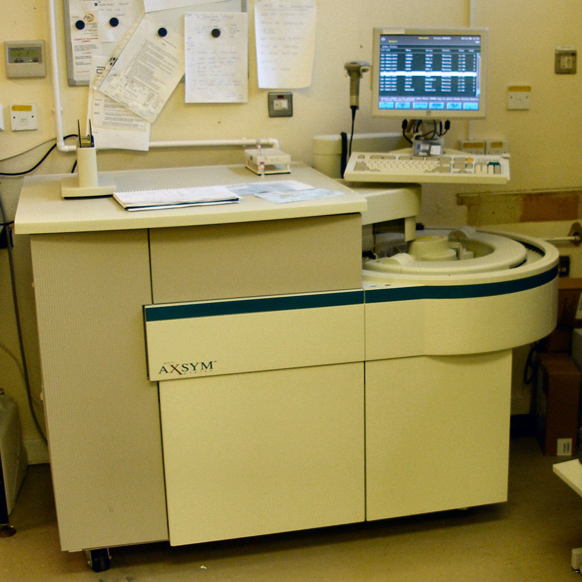 Abbott AxSYM unit